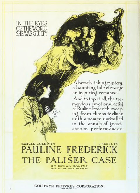 Pauline Frederick in The Paliser Case (1920), a film directed by William Parke.